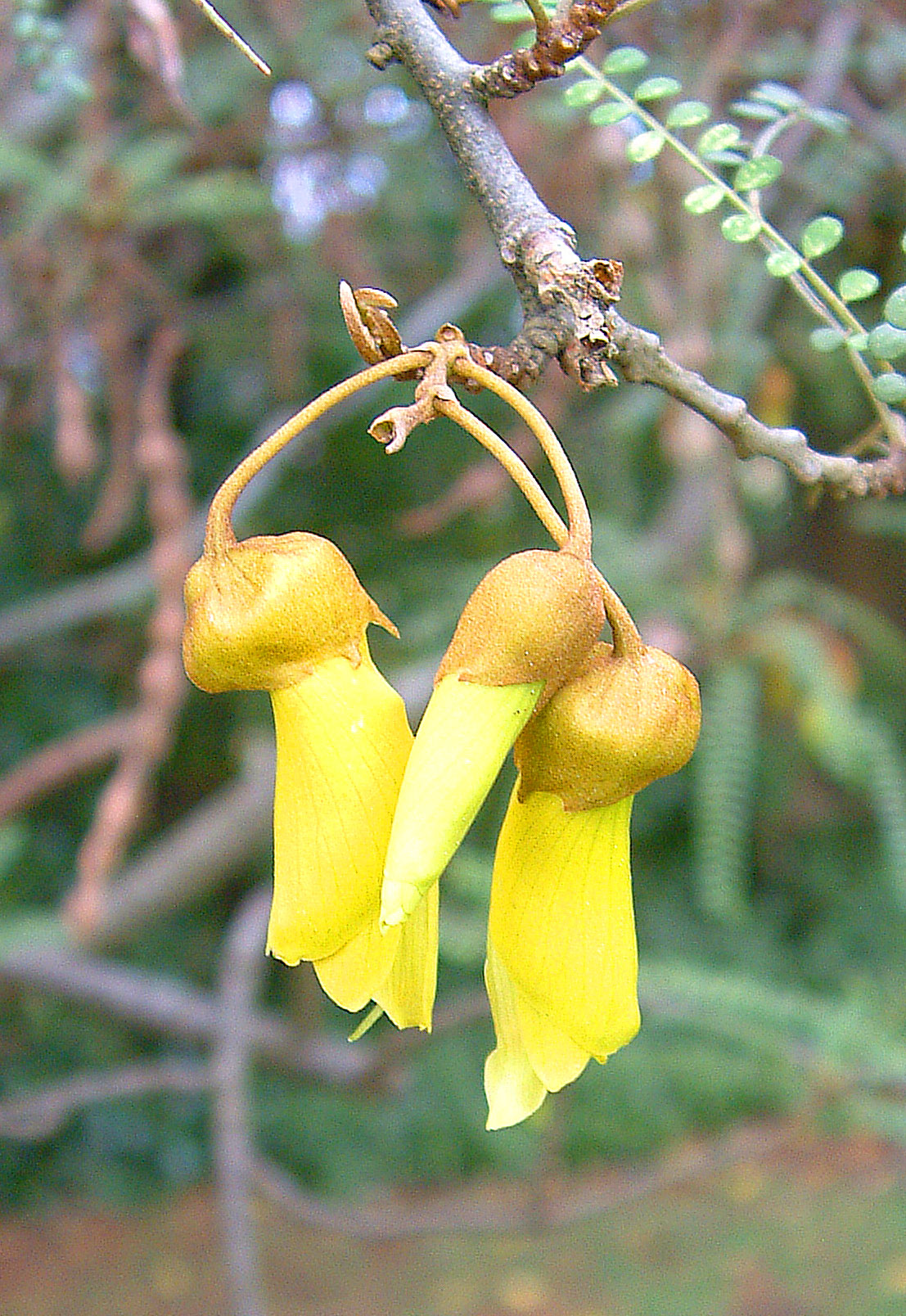 Sophora microphylla (kōwhai) flowers and foliage (Haulashore Island form)